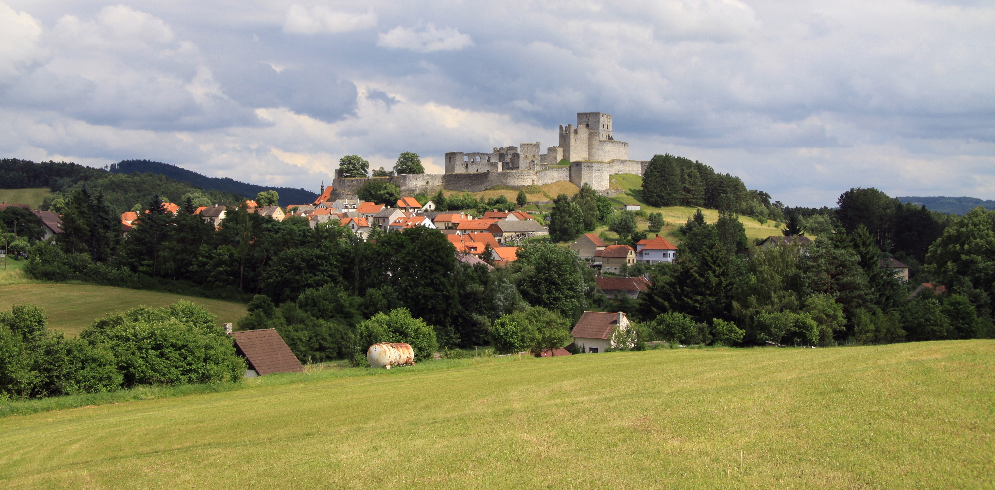 Viev of the Rabí castle and Rabí village in Klatovy District, Czech Republic